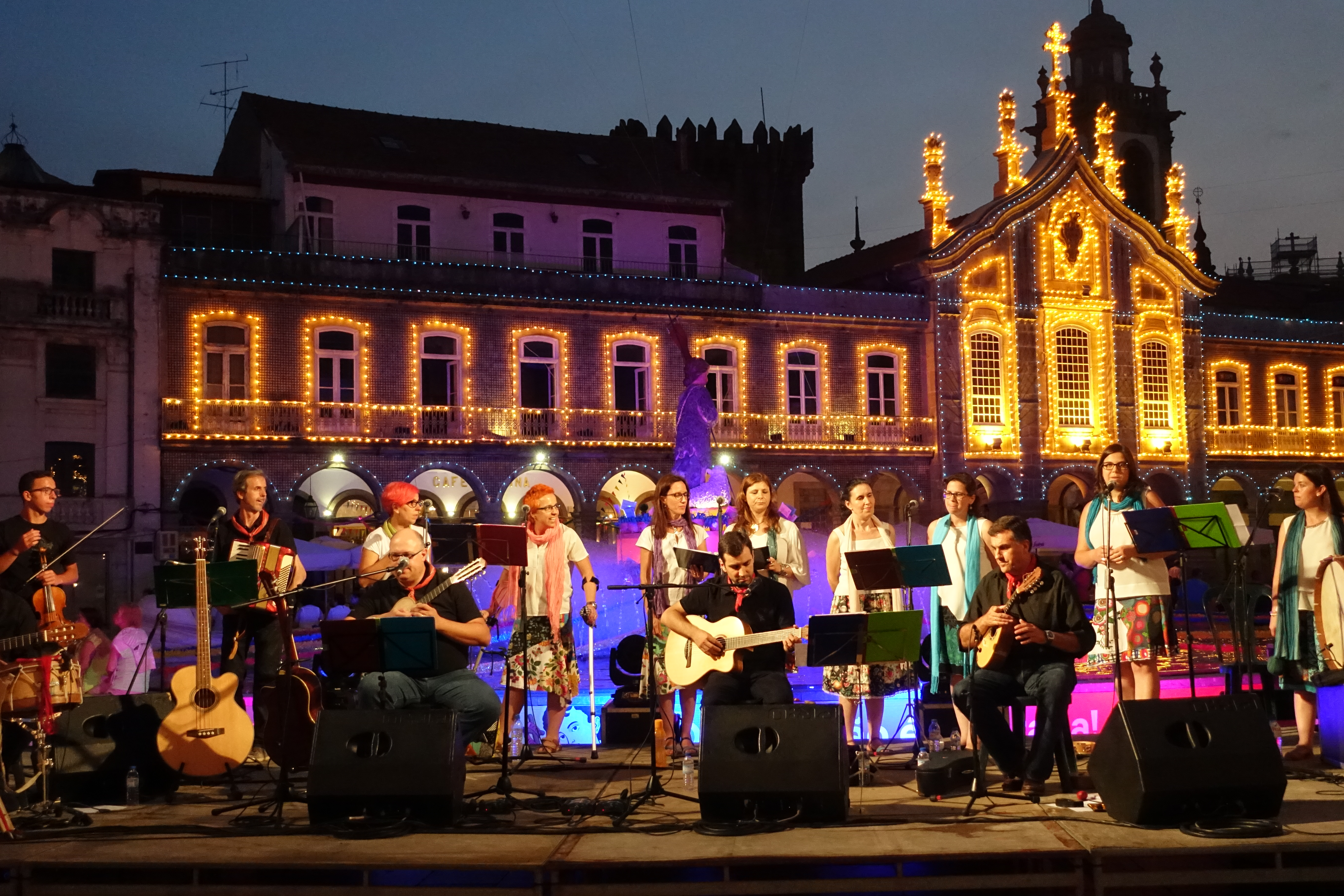 Saint John Feast in Braga 2017, Braga, Portugal.